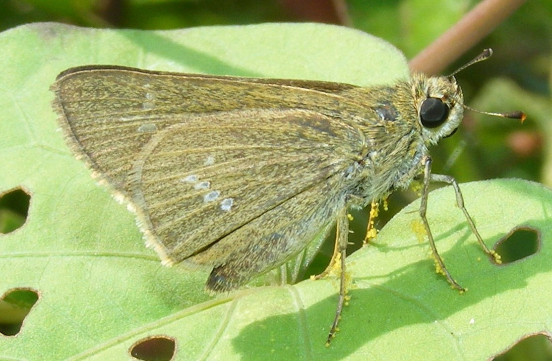 Skipper butterfly carrying a load of pollen grains. Butterflies help in cross-pollinating flowers.